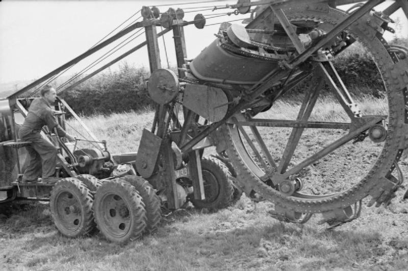 Waste Land Reclaimed- Agriculture in Huntingdonshire, England, 1942 Buckeye Excavator or Digger in action. This large machine is being driven by a farm worker and will be used to make foot-wide drainage ditches to improve the drainage of this heavy clay soil and thus return the land to cultivation.